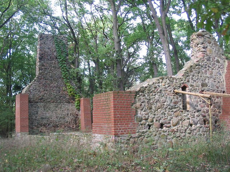 Ruin of the stonechurch in the abandoned village Dangelsdorf, situated in the forest „Nonnenheide“; built probably in the first half of the 14th century. In the south of the abandoned village was founded a new village Dangelsdorf, which is today a part of the municipality Görzke in the district Potsdam Mittelmark, state Brandenburg, Germany. The village appertains to the nature park Naturpark Hoher Fläming.